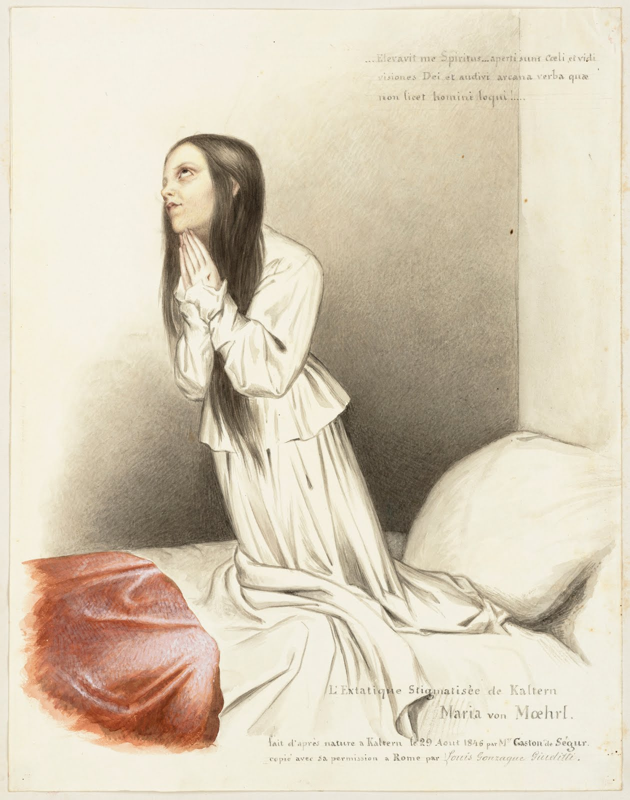 Maria von Moehrl, a girl with stigmata on her hands. Watercolour by L. Giuditti after L.G. de Ségur, 1846.